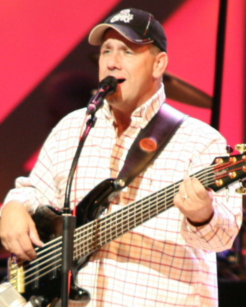 Jeannie Seely & Daryle Singletary